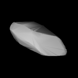 3D convex shape model of 2094 Magnitka, computed using light curve inversion techniques. J. Hanuš, J. Ďurech, M. Brož, B. D. Warner (June 2011). "A study of asteroid pole-latitude distribution based on an extended set of shape models derived by the lightcurve inversion method". Astronomy and Astrophysics 530: A134. ISSN 0004-6361. arXiv